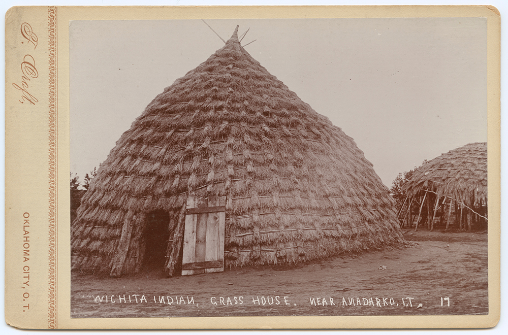 Title: Wichita Indian, Grass House. Near Anadarko, I.T. Alternate Title: [Wichita Indian, Grass House. Near Anadarko, Oklahoma] Creator: Croft, Thomas Date: ca. 1885-1900 Place: Oklahoma; Indian Territory Part Of: of the Oklahoma Territory/mode/exact Description: This photograph is part of the Indians of the Oklahoma Territory collection, which includes 14 photographs of various American Indian tribes in the Oklahoma Territory. The photos portray Indians from the Comanche, Sac and Fox, Kaw, and Pawnee tribes; Chilocco Indian schools; the ghost dance; Indian camps and lodges; and an 1896 Oklahoma City tornado. This view is of a Wichita Indian grass house. Physical Description: 1 photographic print: albumen, 14 x 10 cm. on 16.5 x 11 cm. mount File: ag1982_0152_017c_grass_house_opt.jpg Rights: Please cite DeGolyer Library, Southern Methodist University when using this file. A high-resolution version of this file may be obtained for a fee. For details see the web page. For other information, . For more information, View U.S. West: Photographs, Manuscripts, and Imprints at